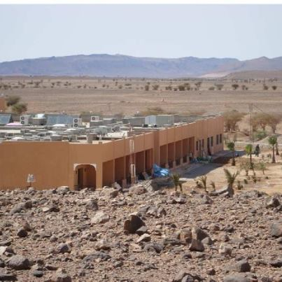 Palace of the royal family build with Izodom